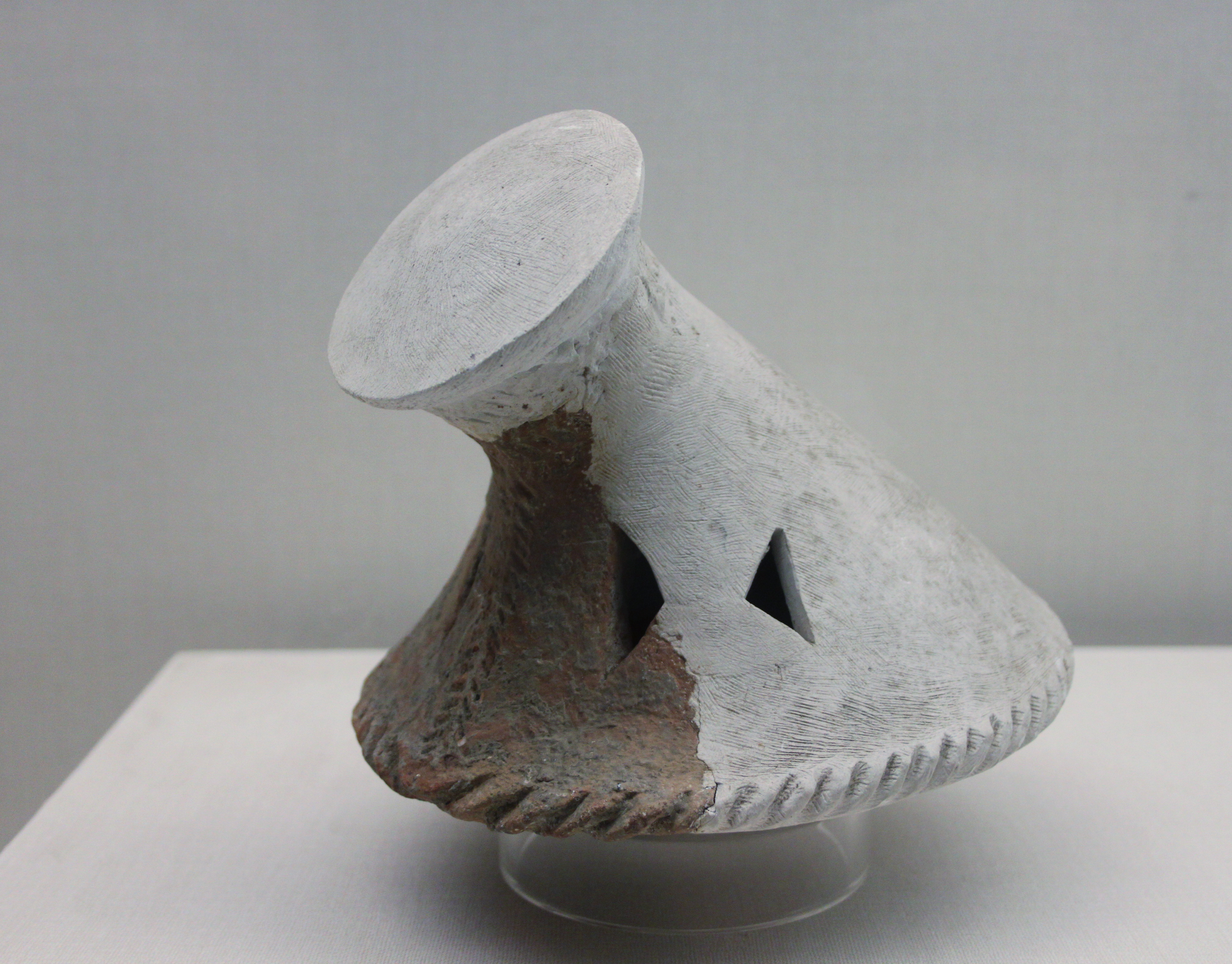 Support. Pengtoushan culture (9000-7000 BP). Hunan Provincial Museum.